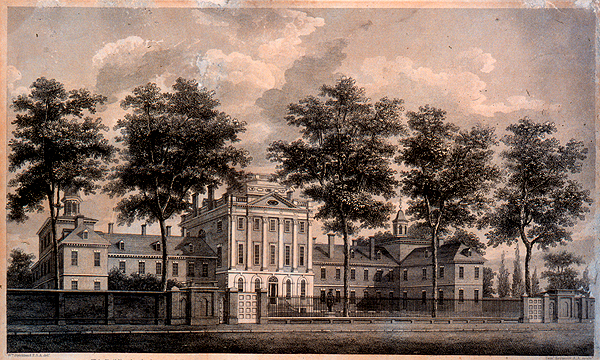 Pennsylvania Hospital Notes "The Building by the Bounty of Government and many Private Persons was proudly founded for the Relief of the Sick and Miserable. Anno 1755." Date: 1811 Size: 10.75 x 17.25 in. Medium: Engraving